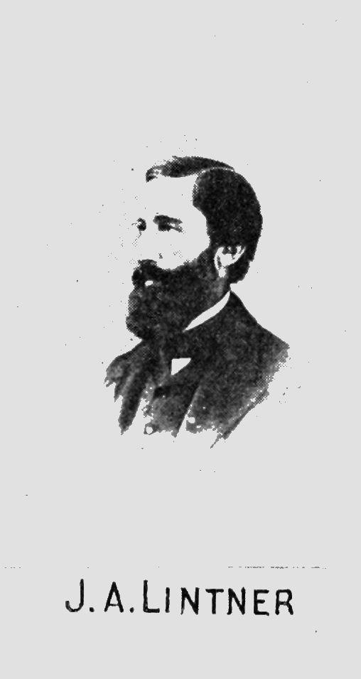 Entomologists - Cut-out from originals shown below